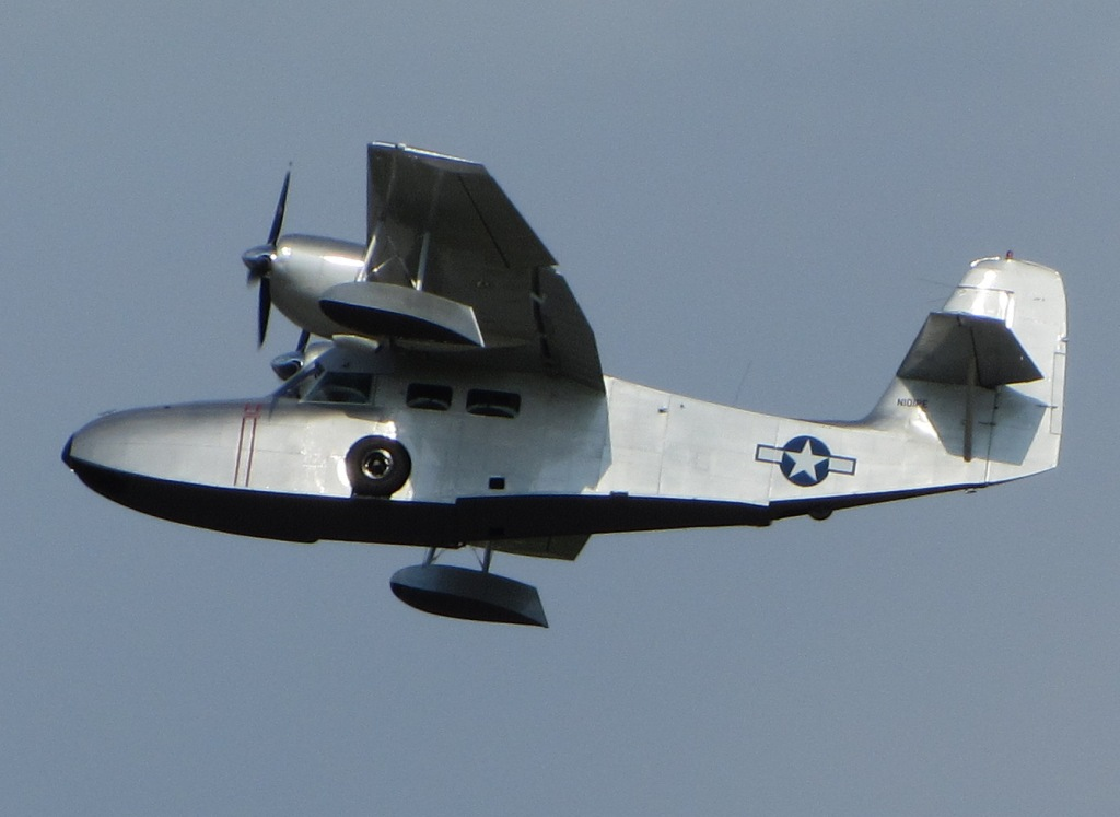 J4-F Grumman Widgeon